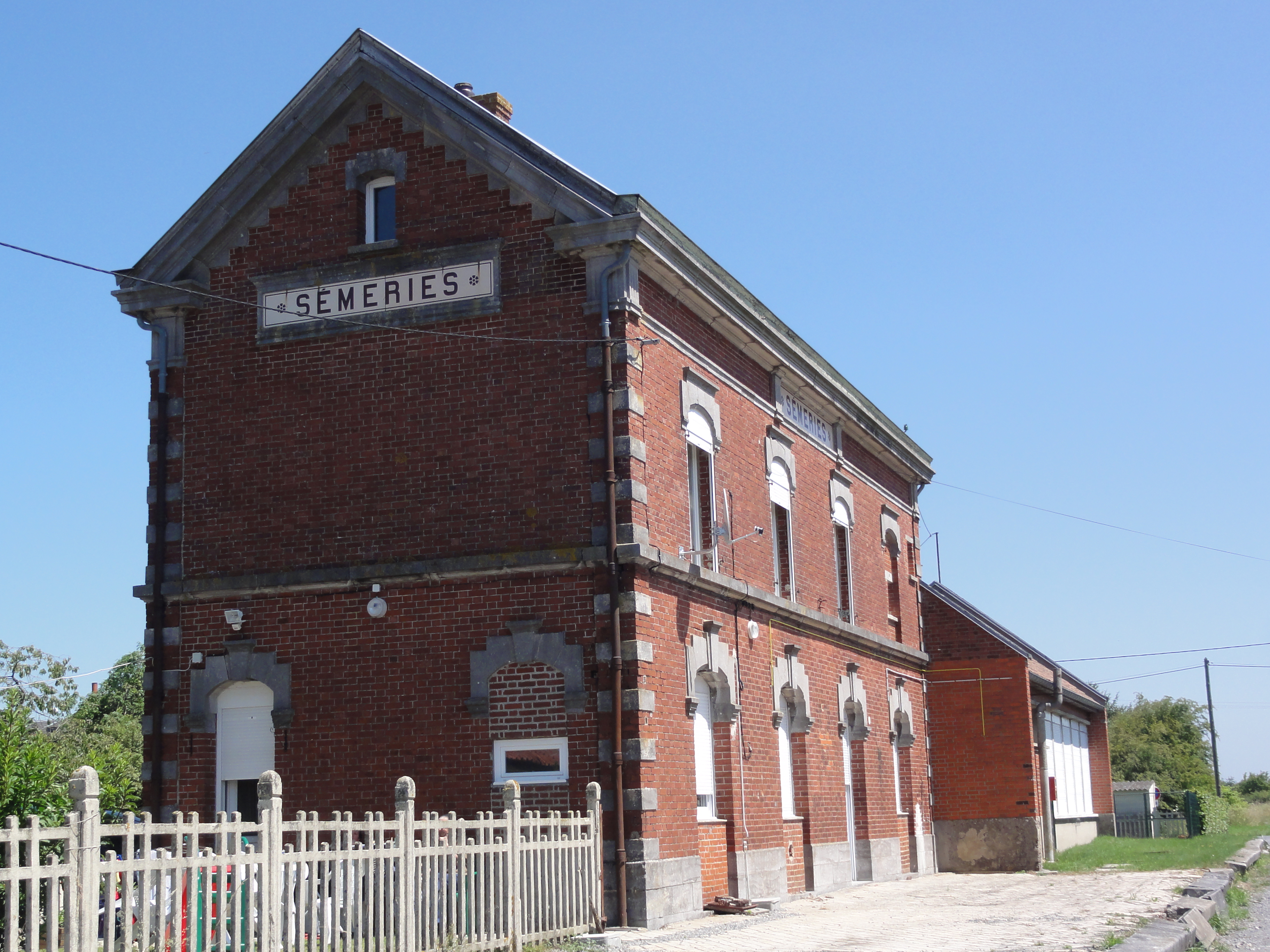 Sémeries (Nord, Fr) ancienne gare